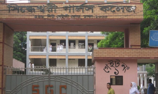 Siddheswari College